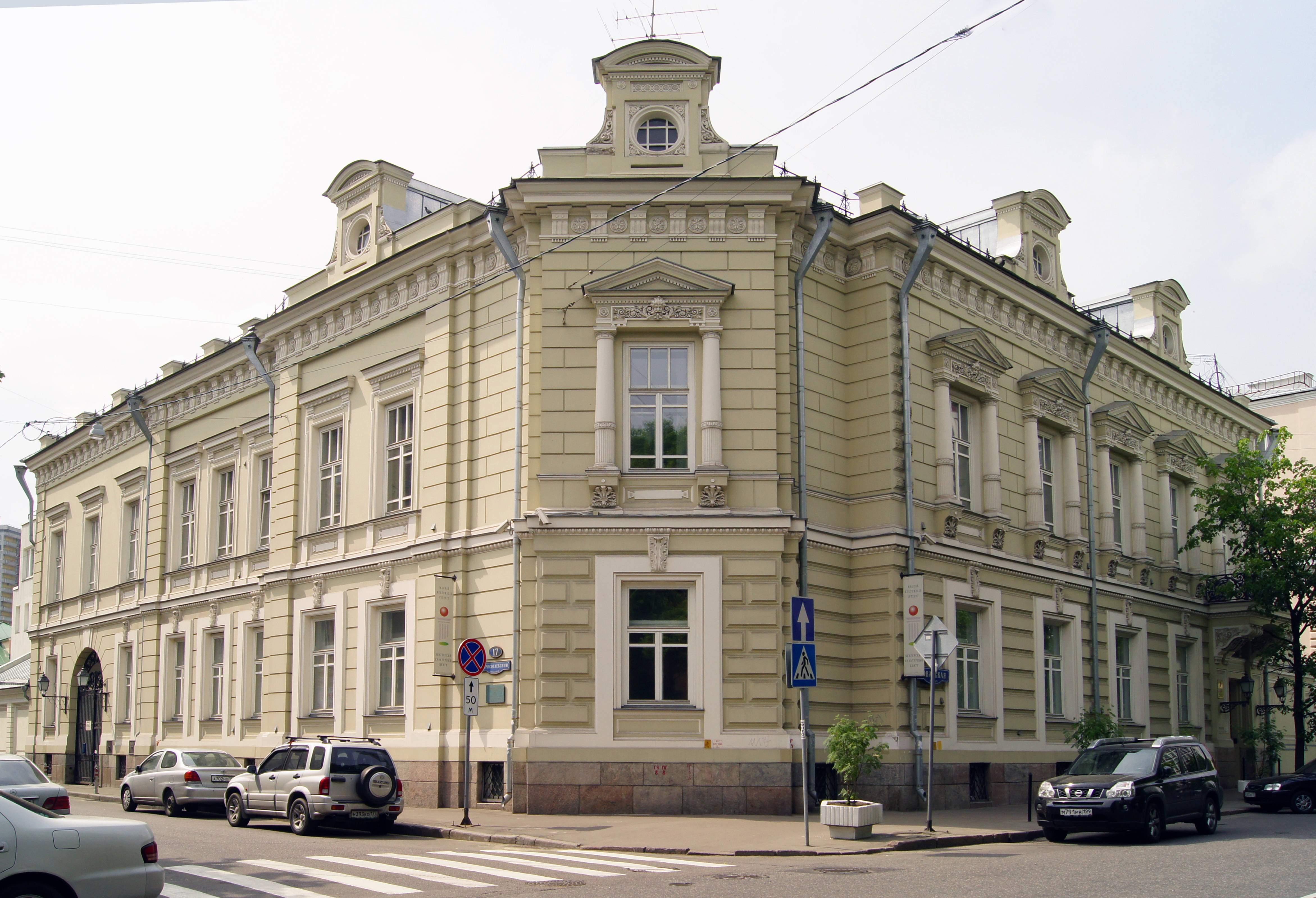 Povarskaya street Moscow 21-17